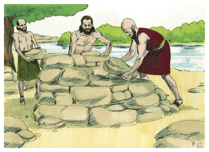 Biblical illustration of Book of Joshua Chapter 22